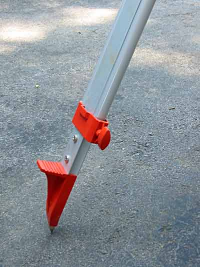 This is a photo of the foot of a surveyor's tripod. The spiked foot anchors the tripod in the ground. The platform at the top of the foot provides a place for the surveyor to press the tripod foot down with his own foot. Above the foot, the adjustment for the leg length is seen.